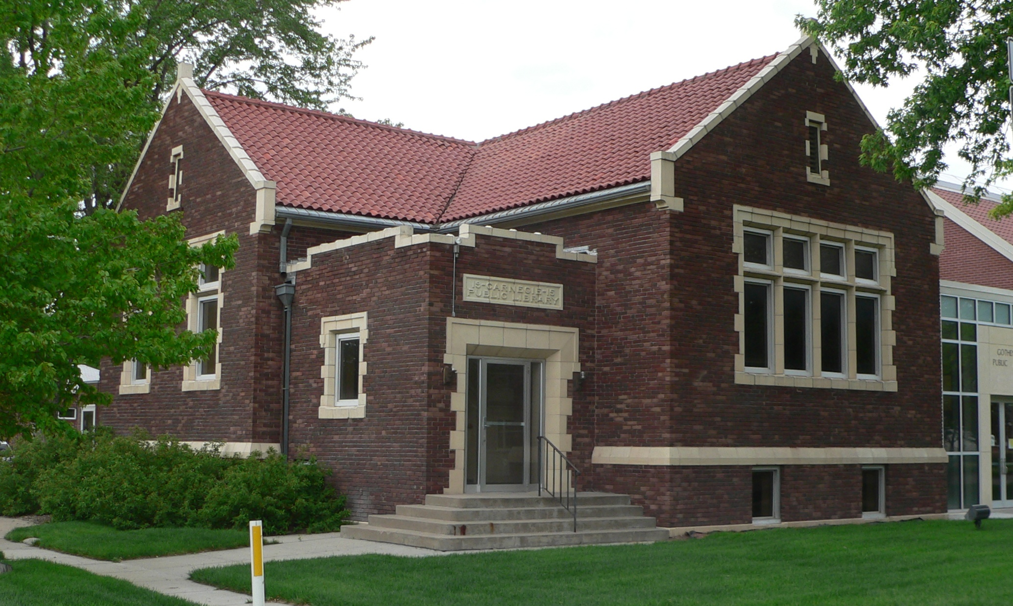 Carnegie Public Library in Gothenburg, Nebraska; seen from the southeast. The Jacobethan building was constructed in 1915, and is listed in the National Register of Historic Places. With more recent additions, partly visible at right, it continues to serve as Gothenburg's library.